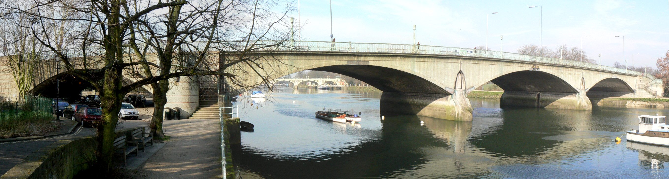 Twickenham Bridge panorama looking downstream to Richmond Lock